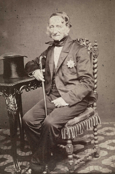 Professor Christopher Hansteen photographed by one of the first portrait photographers in Norway.